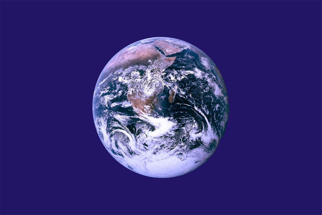 The Earth flag is not an official flag, since there is no official governing body over Earth. The flag holds a photo transfer of a NASA image of the Earth on a dark blue background. It has been associated with Earth Day. Although the flag was originally copyrighted, a judge ruled[1] that the copyright was invalid. Earth Flag Ltd. v. Alamo Flag Co., 154 F. Supp. 2d 663 (S.D.N.Y. 2001)